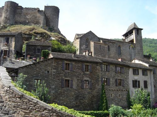 old centre of Brousse-le-Château (Aveyron - France)